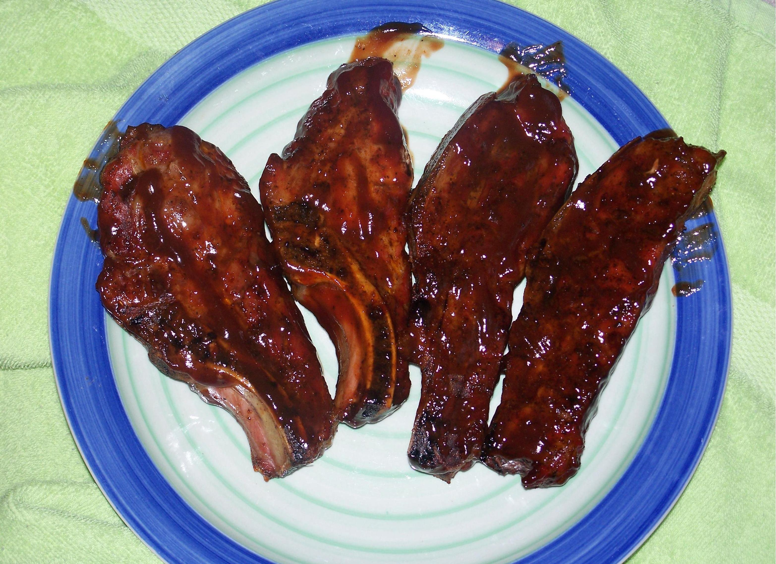 Barbecue Country Style Pork Ribs. Image taken by myself, Vance Cannon, on 09-04-07.